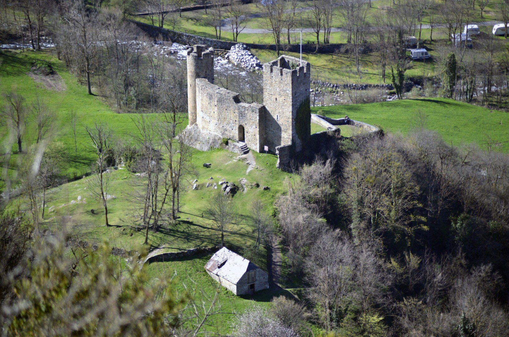 Old castle which protected the lower valleys from spanish attacksin the old days.